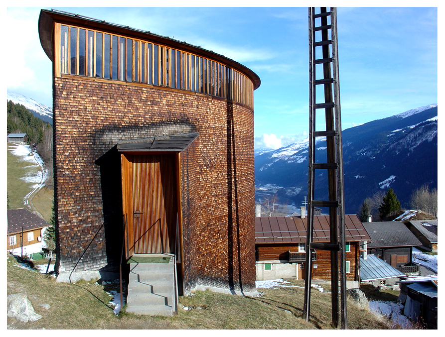 St Benedict Chapel, Designed by Architect Peter Zumthor.